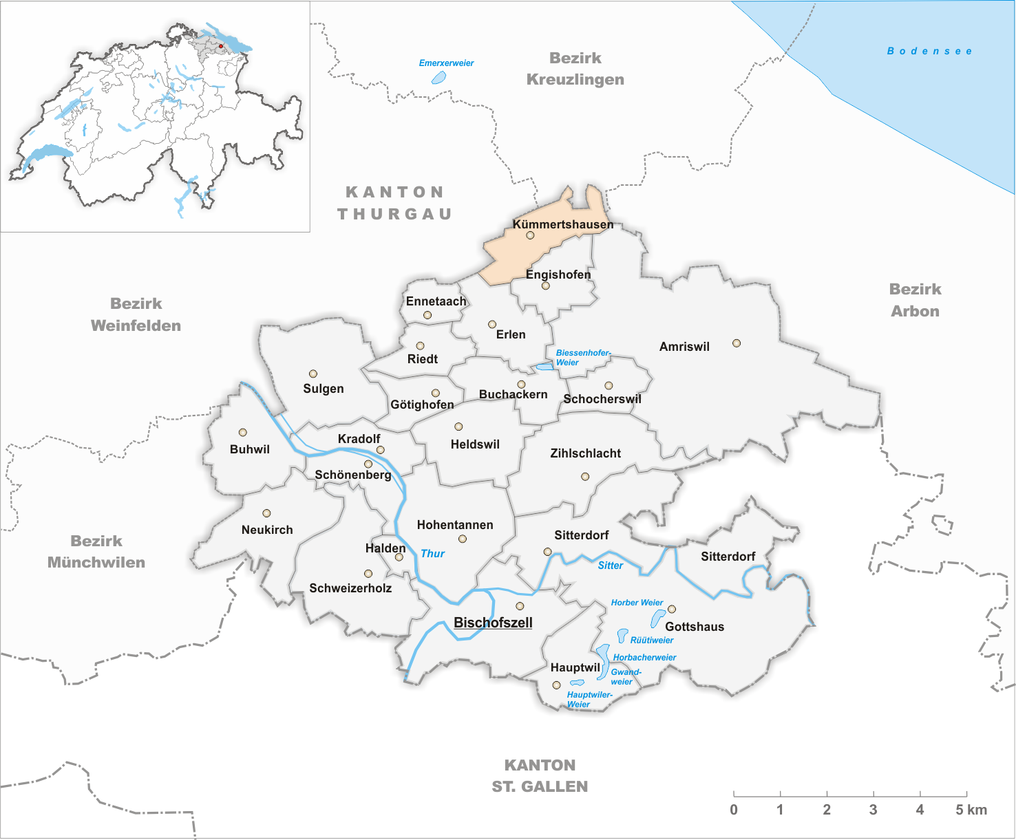 Municipality Kümmertshausen